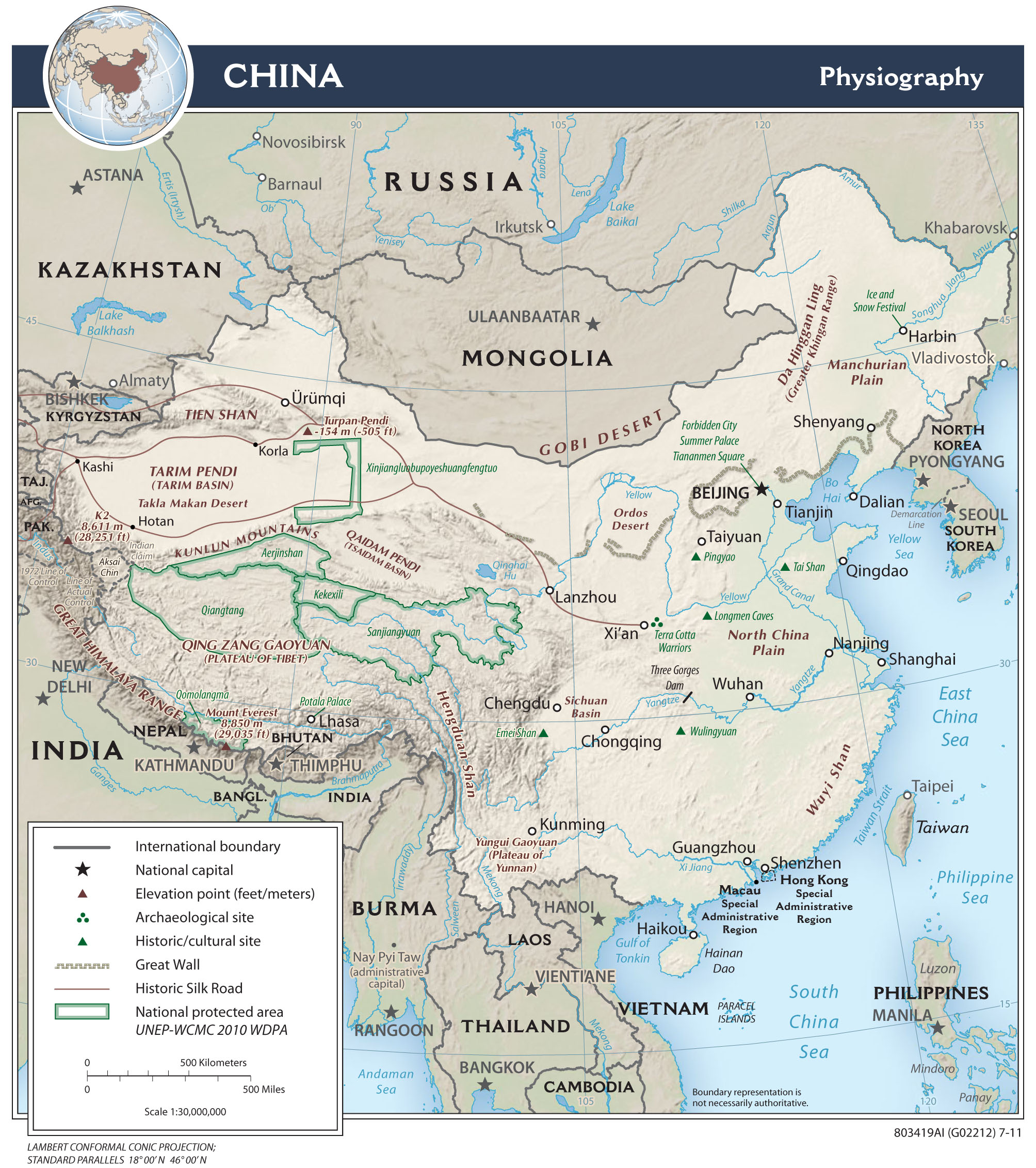 Topographic map of China (shaded relief), 2011.